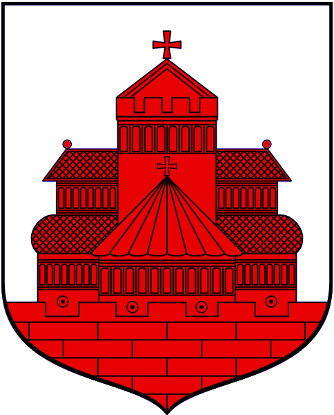 Coat of arms of the municipality of Helsingborg, Sweden. previously the coat of arms of the city of Helsingborg, Sweden. The seal which the coat of arms is based on is from 1468 and depicts the midieval castle behind a crenulated wall with the St. Michael-tower in front of the keep "Kärnan". This representation of a coat of arms is potentially different from the one used by the armiger (municipality or organisation) in question. = ⇑“Sable, a lionrampant or” This coat of arms was drawn based on its blazon which – being a written description – is free from copyright. Any illustration conforming with the blazon of the arms is considered to be heraldically correct. Thus several different artistic interpretations of the same coat of arms can exist. The design officially used by the armiger is likely protected by copyright, in which case it cannot be used here.Individual representations of a coat of arms, drawn from a blazon, may have a copyright belonging to the artist, but are not necessarily derivative works. Further information: Commons:Coats of arms and Template:Coa blazon